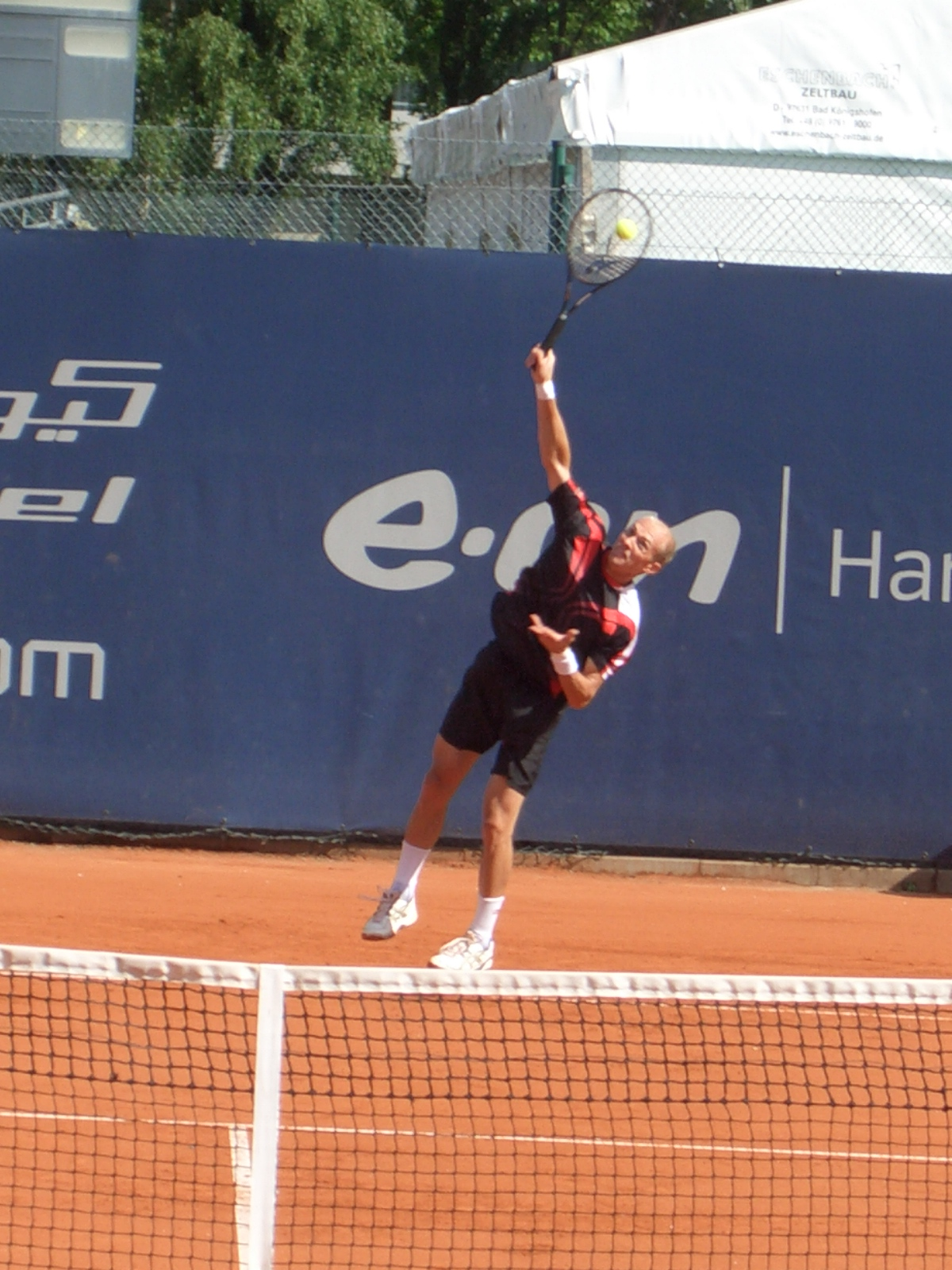 Nikolay Davydenko at the Hamburg Masters 2007